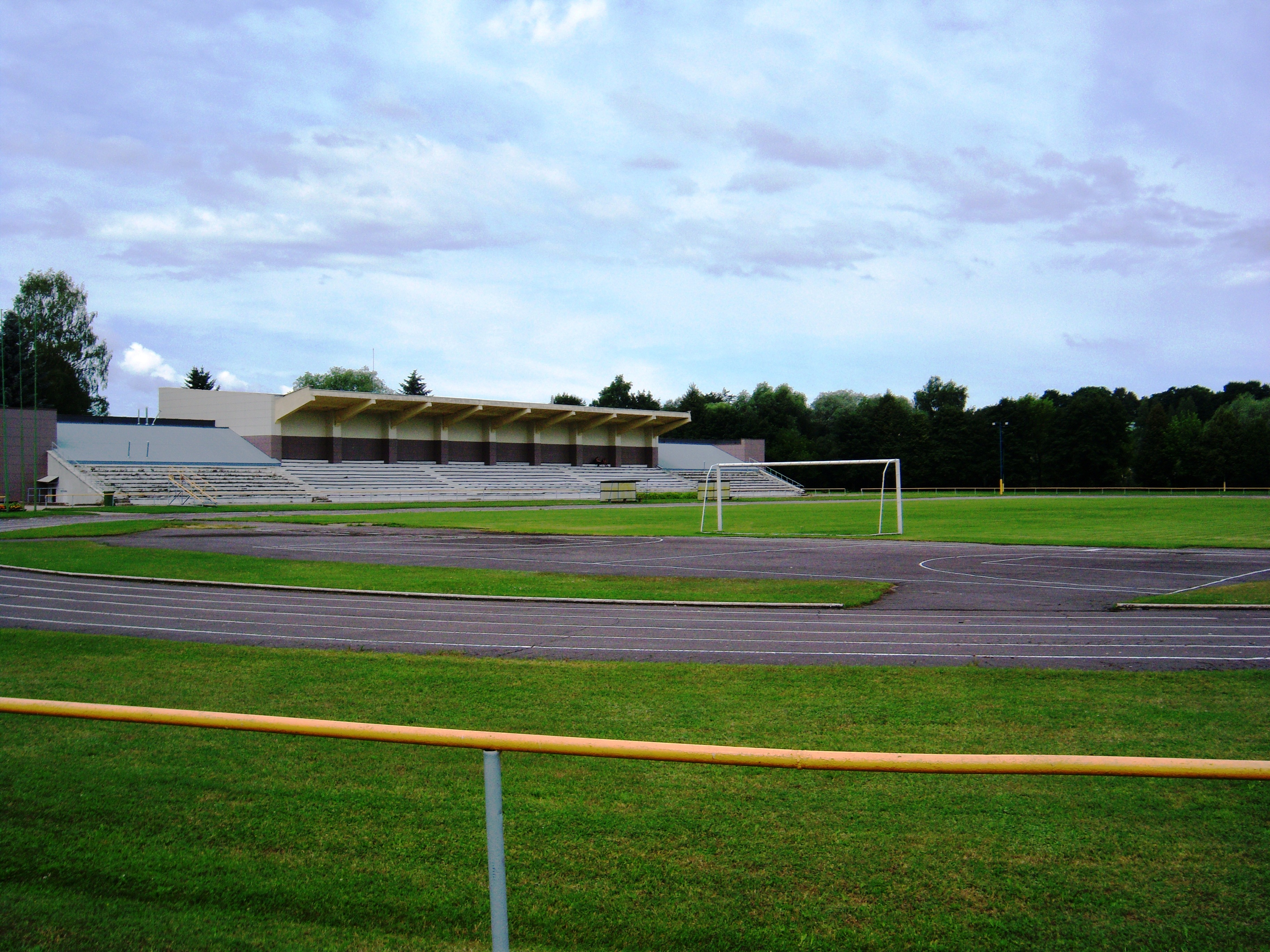 Football stadium, Ukmergė, Lithuania